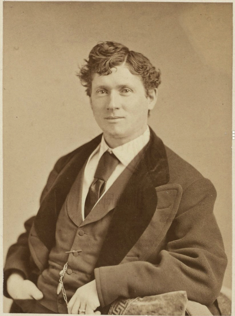 Photo portrait of minstrel performer Dan Bryant ca. 1865